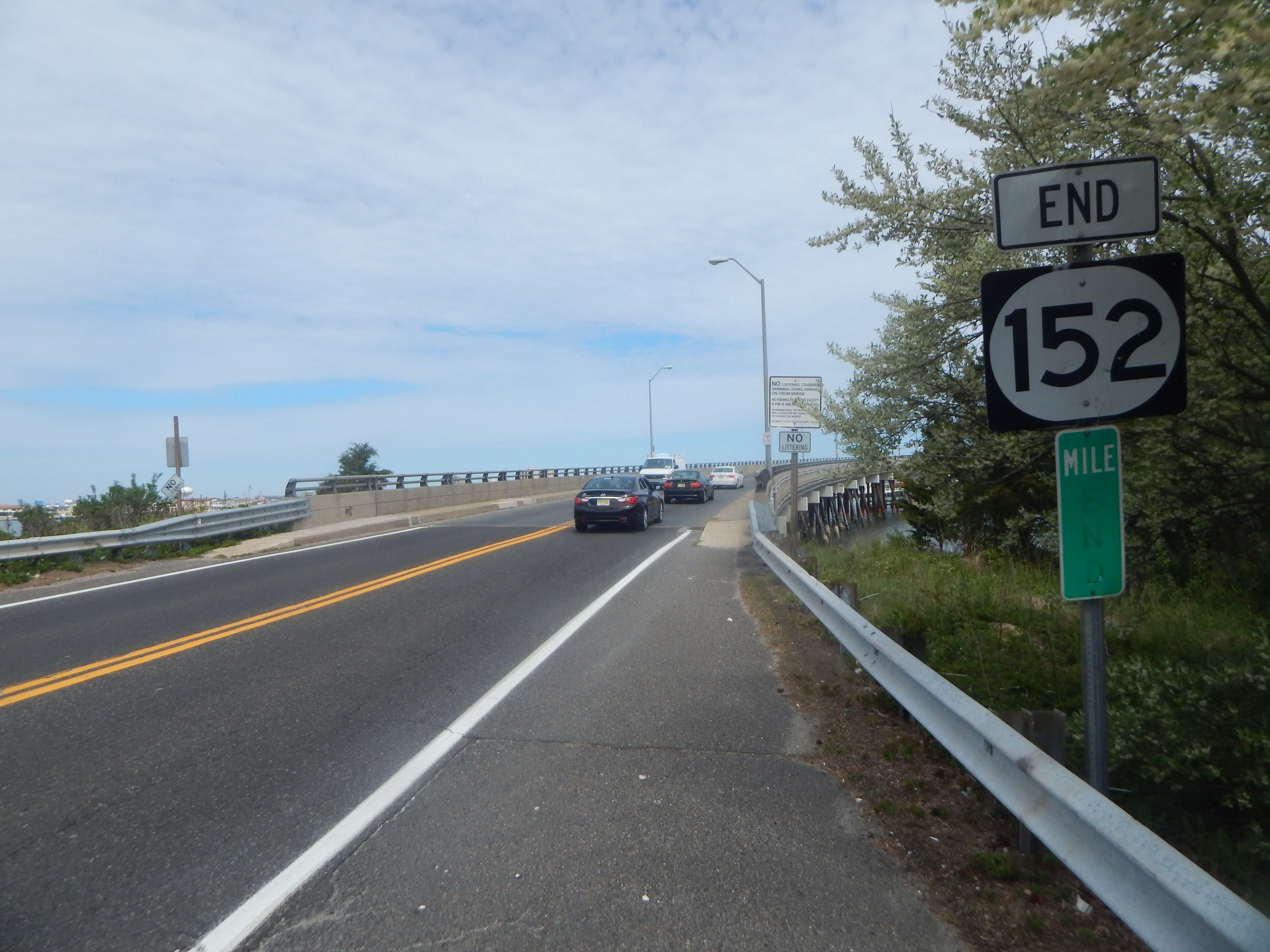 Route 152 in Egg Harbor Township, New Jersey.